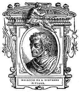 Illustratio from "Le Vite" by Giorgio Vasari, edition of 1568. For the artist portrayed see filename